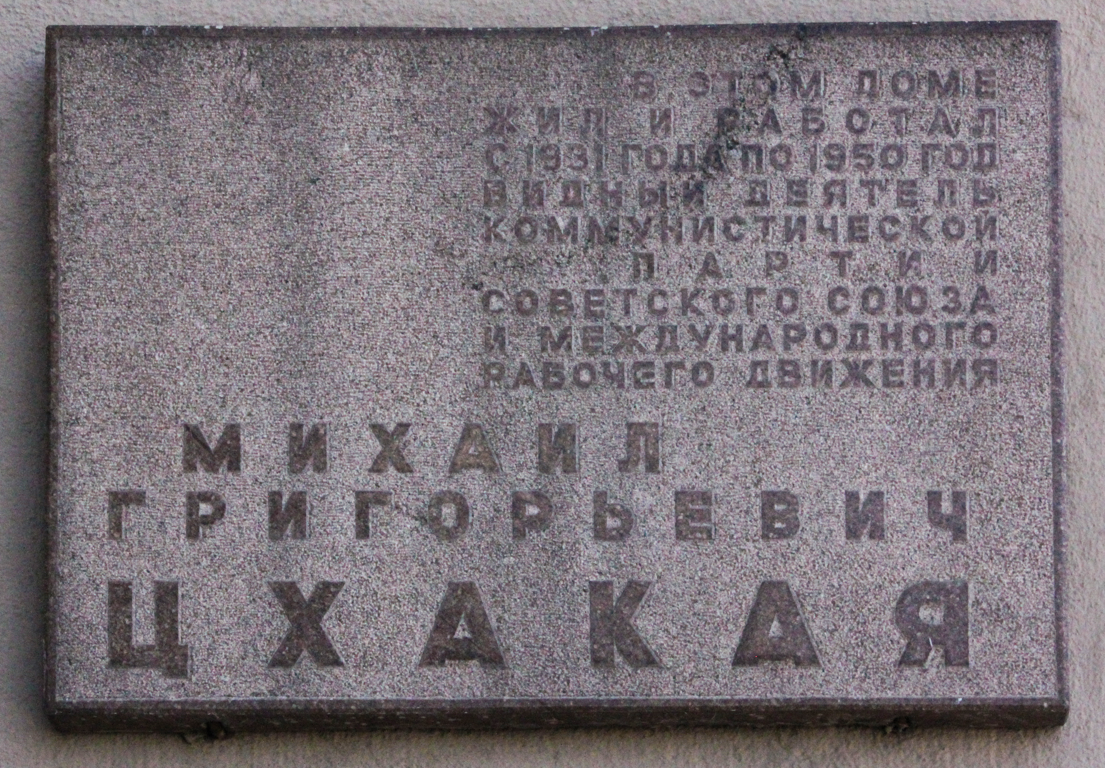 In this building from 1931 to 1950 lived and worked a remarkable Soviet politician of the Communist Party and the International Communist Movement Mikhail Grigoryevich Tskhakaya.